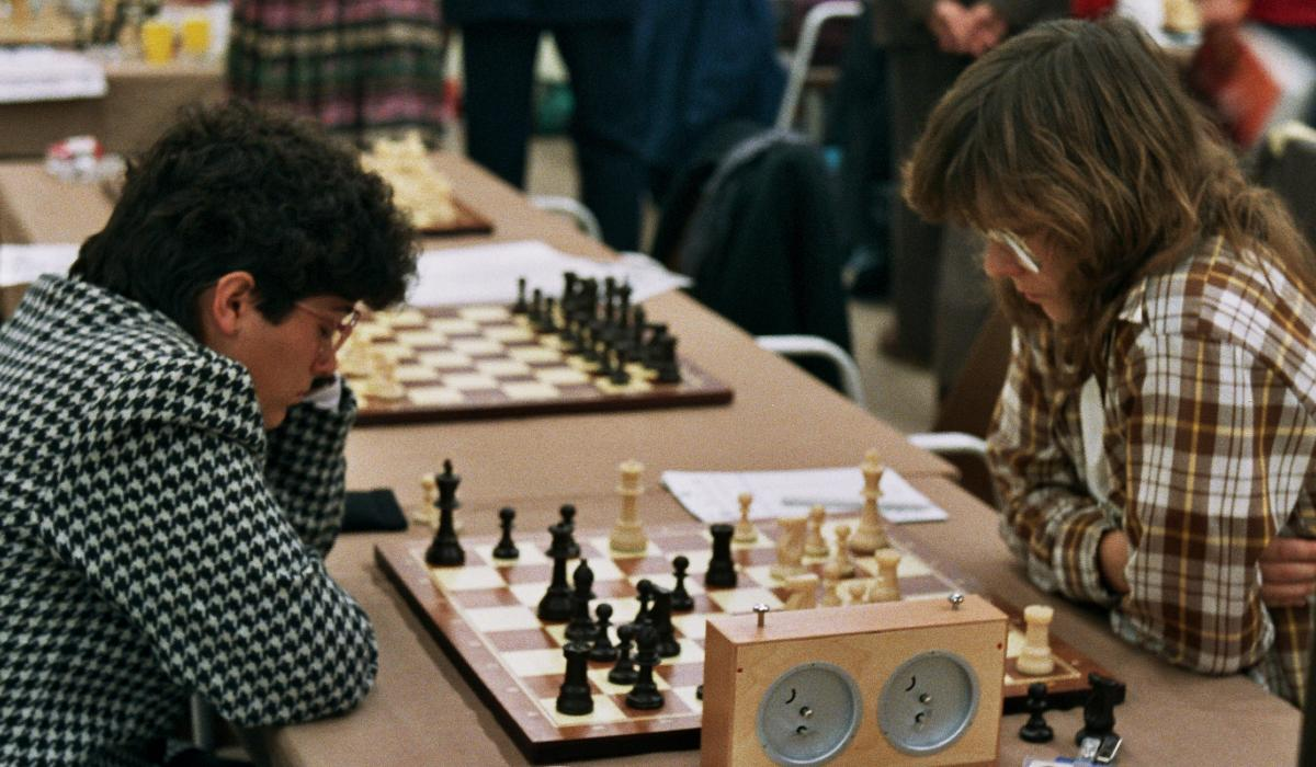 Christine Flear and Barbara Hund, Chess Olympiad 1988 in Thessaloniki, Photographer Gerhard Hund.